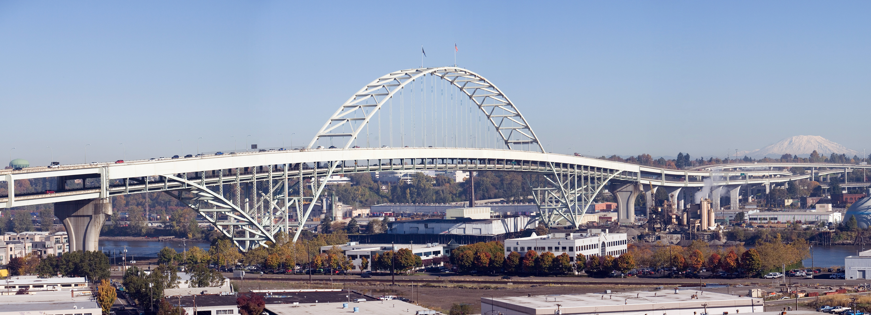 The Fremont Bridge in Portland, Oregon, with Mount St. Helens (and part of Mount Rainier) in the background. This image is a 1x4 panoramic stitch.